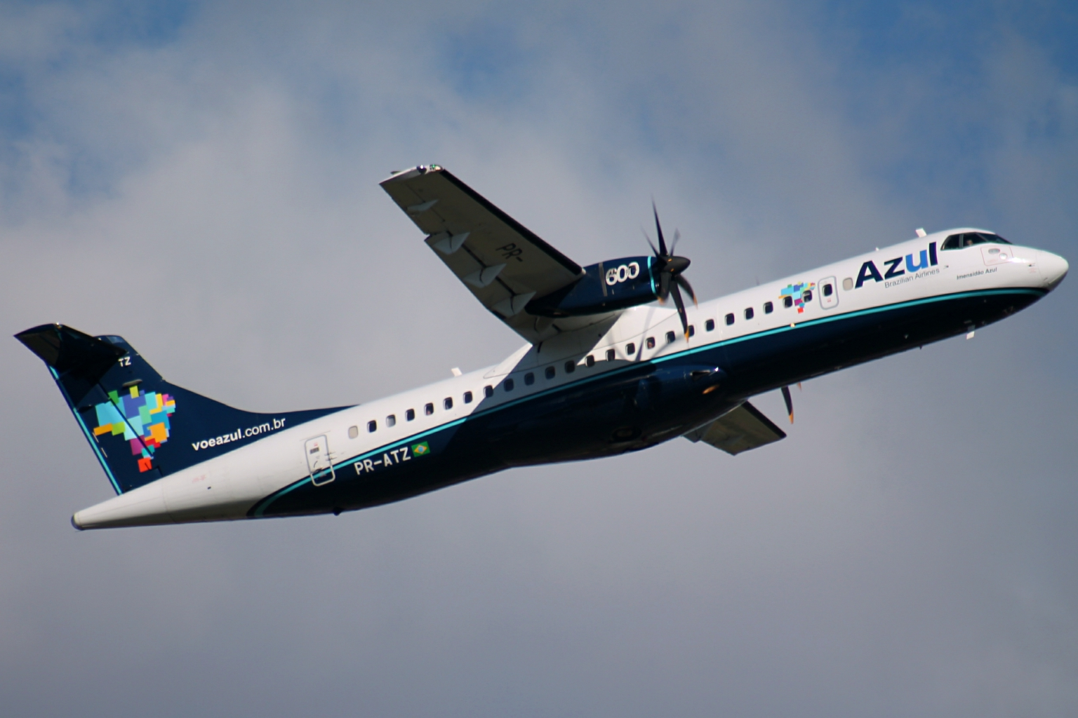 IMG_6123[1]_Fotor